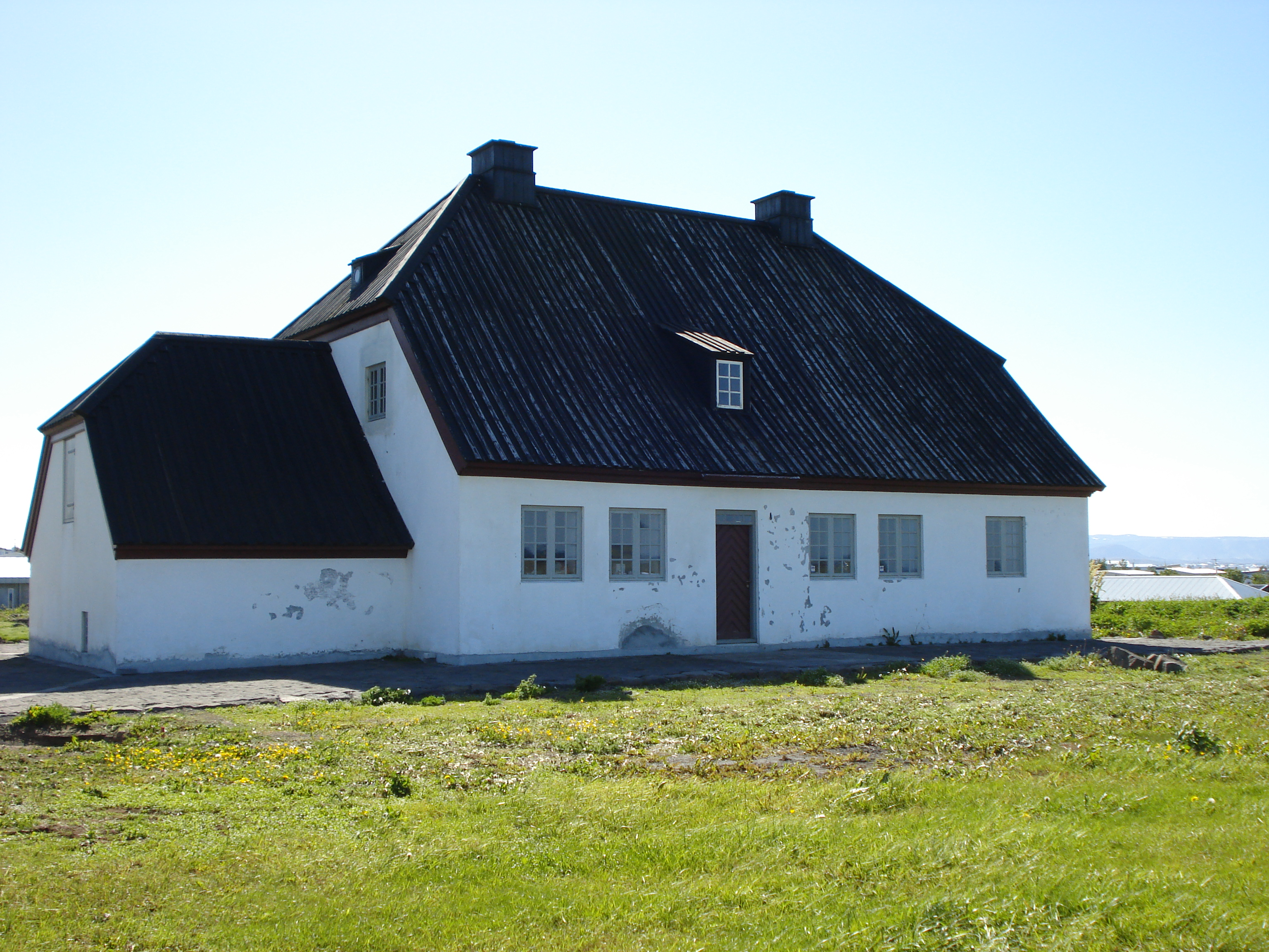 House of the country doctor Bjarni Pálsson in Seltjarnarnes